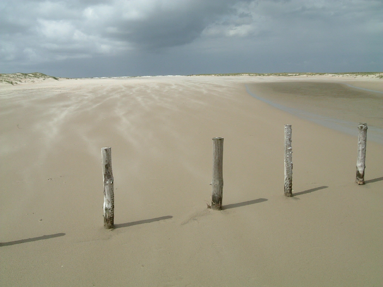 This image was taken at the beach on the Danish island of Rømø during the summer of 2005. The camera is heading west towards the North Sea. The waves are visible in the Horizon. The wind is blowing white, fine grained sand towards us. The image has not been edited in any way.